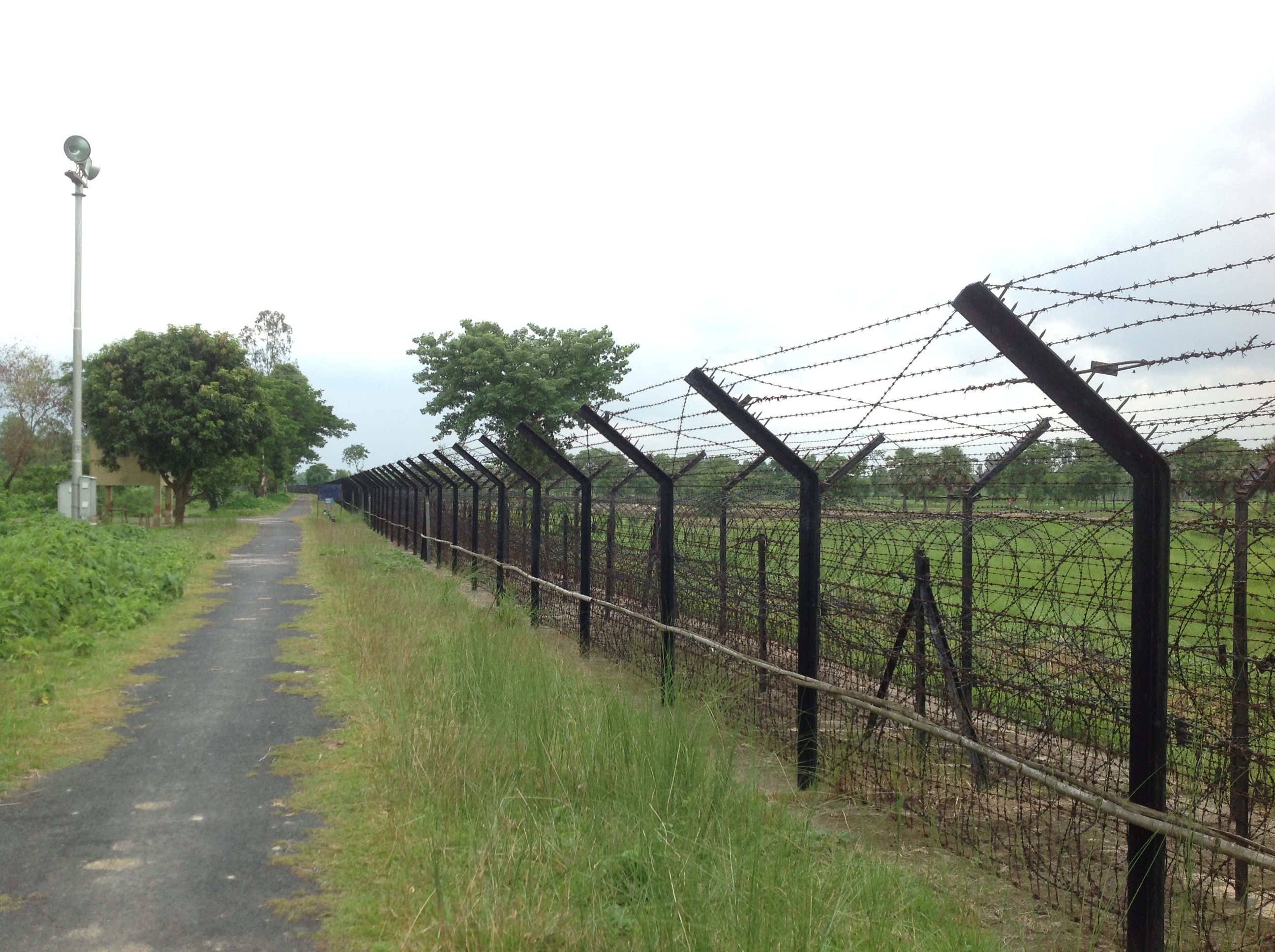 Indo Bangladesh Border, Dakshin Denajpur.